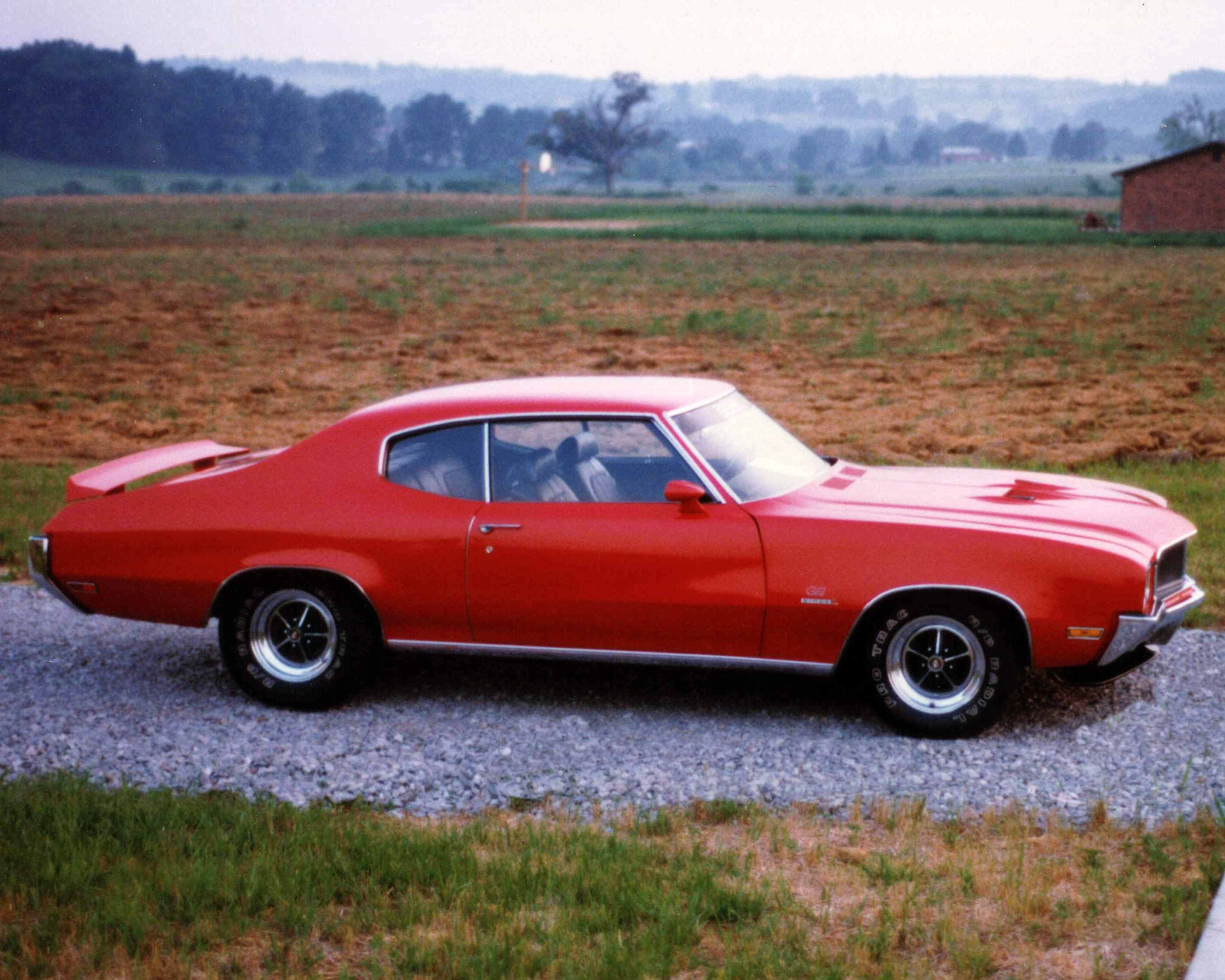 Buick Gran Sport, 1970 455 Stage 1. Buick GS.1970 Buick GSX)